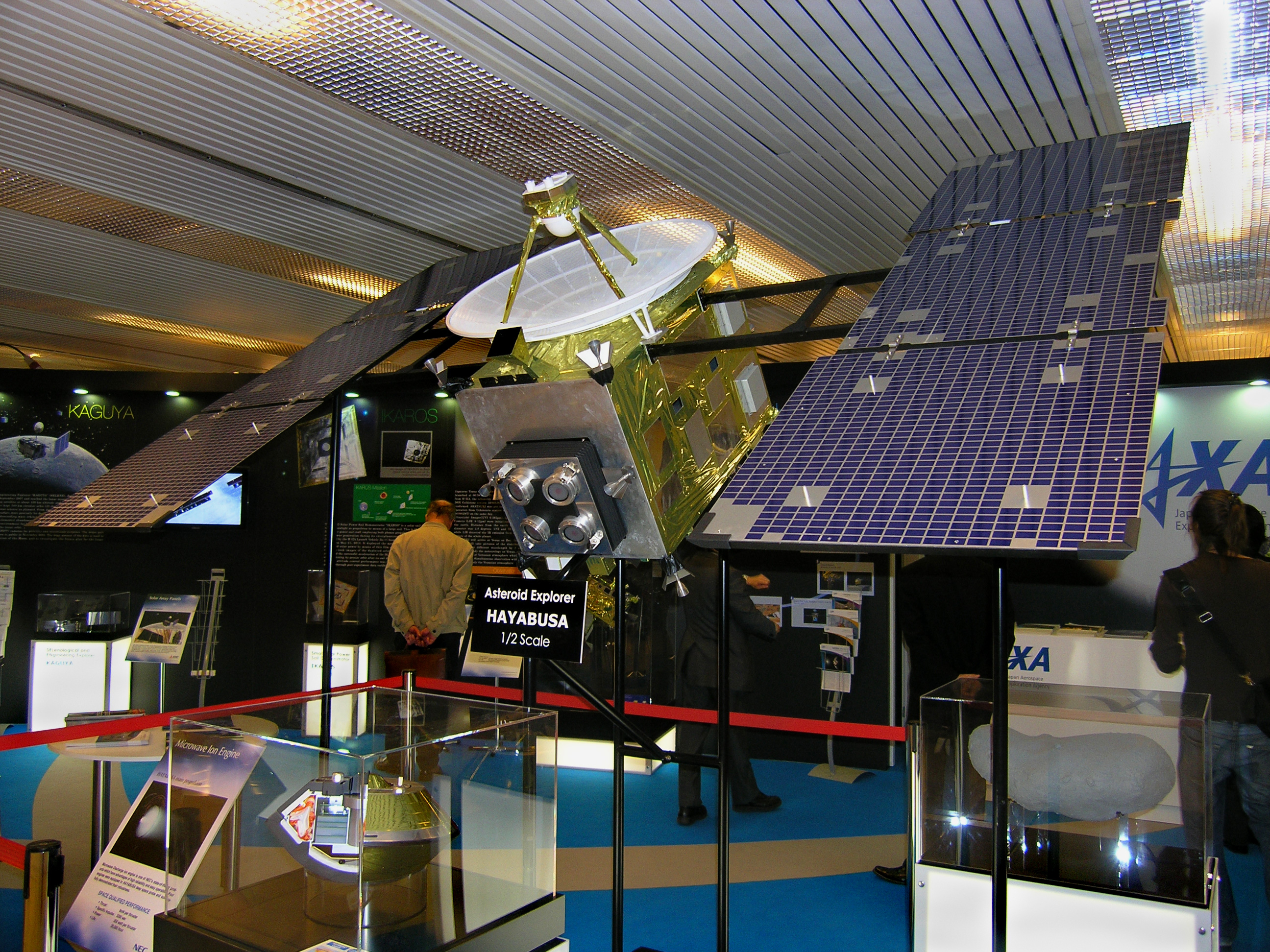 Japan asteroid explorer Hayabusa at the 61st International Astronautical Congress in Prague, Czech Republic